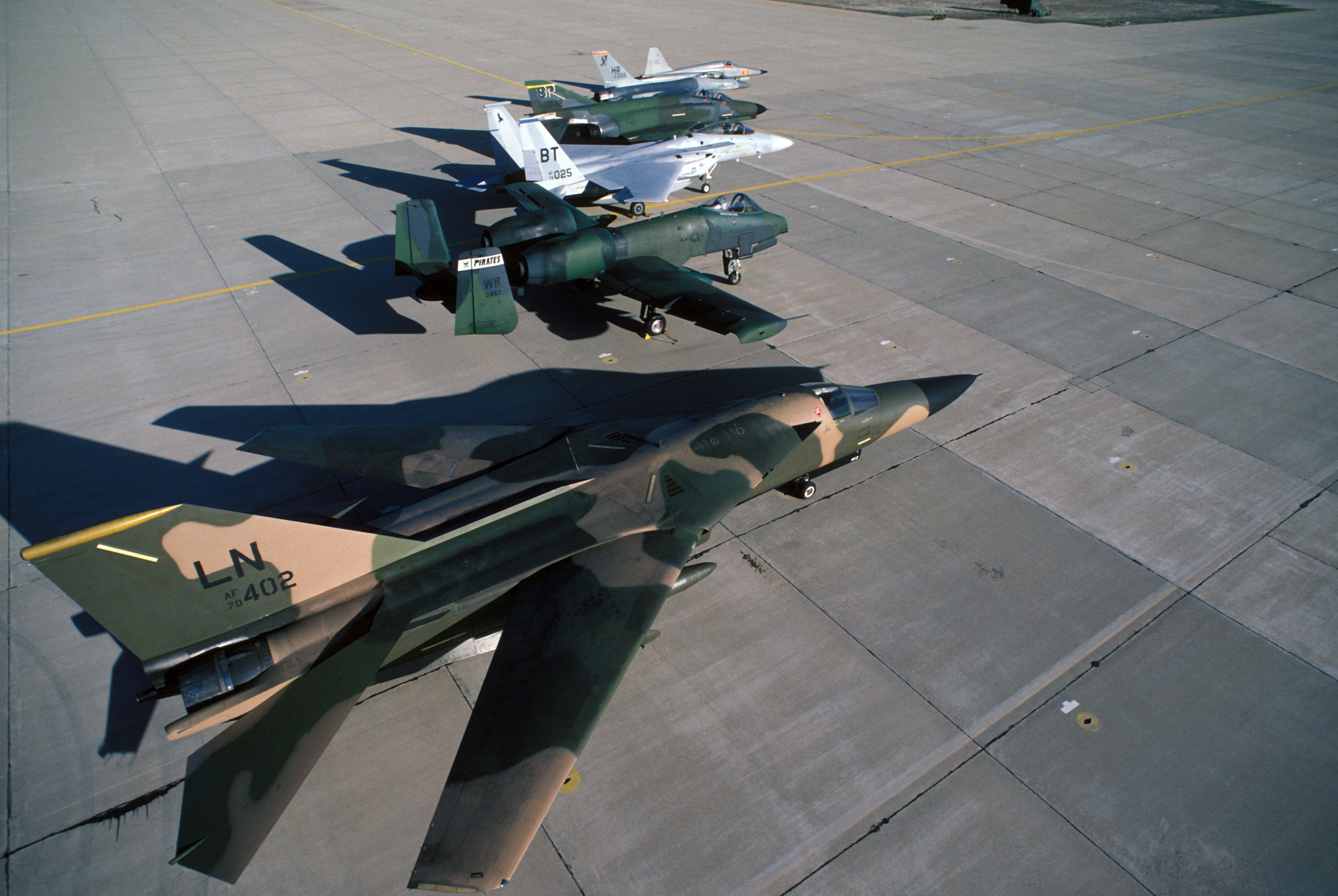 U.S. Air Force in Europe aircraft in 1987 (front to back): General Dynamics F-111F, 493rd Tactical Fighter Squadron, 48th Tactical Fighter Wing, RAF Lakenheath; Fairchild A-10A Thunderbolt II, 509th TFS, 81st TFW, RAF Woodbridge; McDonnell Douglas F-15C Eagle, 525th TFS, 36th TFW, Bitburg Air Base; McDonnell Douglas F-4E Phantom II, 81st TFS, 52nd TFW, Spangdahlem Air Base; General Dynamics F-16A Fighting Falcon, 496th TFS, 50th TFW, Hahn Air Base; and a Northrop F-5E Tiger II, 527th Aggressor Squadron, RAF Alconbury.